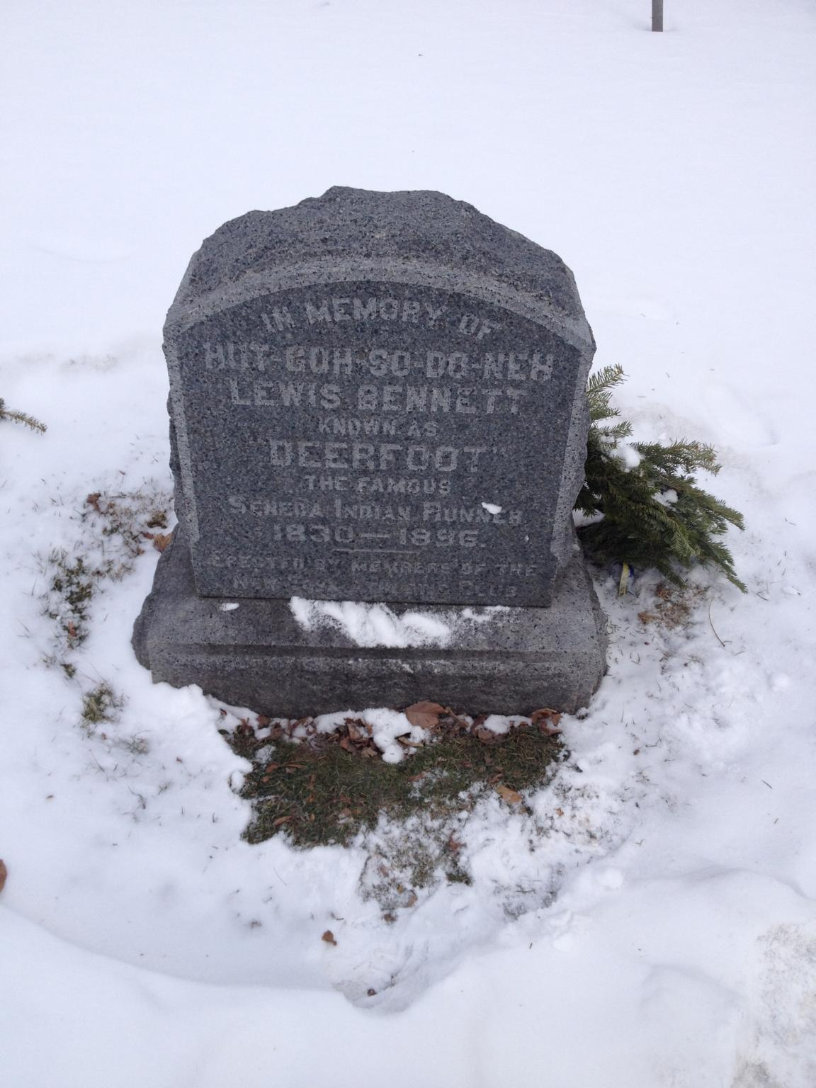 Deerfoot's grave can be found in Forest Lawn Cemetery in Buffalo, New York. The wreath on the grave indicates a family presence in the area.